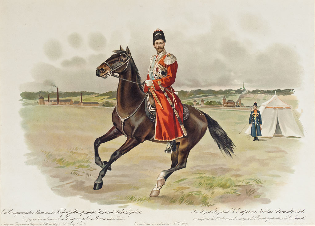 Nicholas II of Russia in the uniform of Konvoy His Majesty.